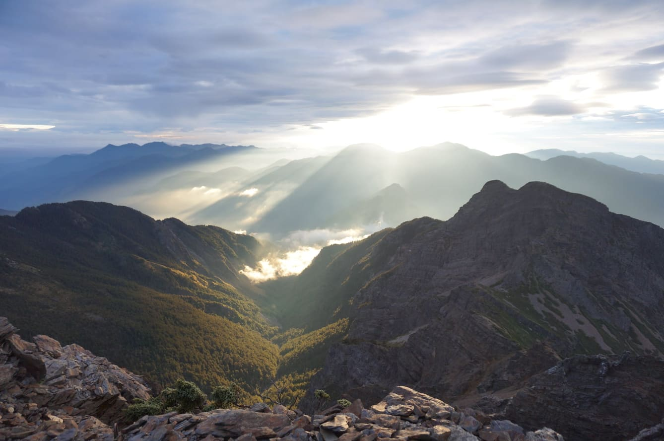 First sun bean penetrating on the highest point in Taiwan. Shining the whole valley on the top of jade mountain.